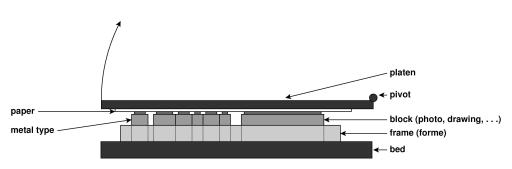 Flatbed letterpress drawn by Peter Flynn using tkPaint.